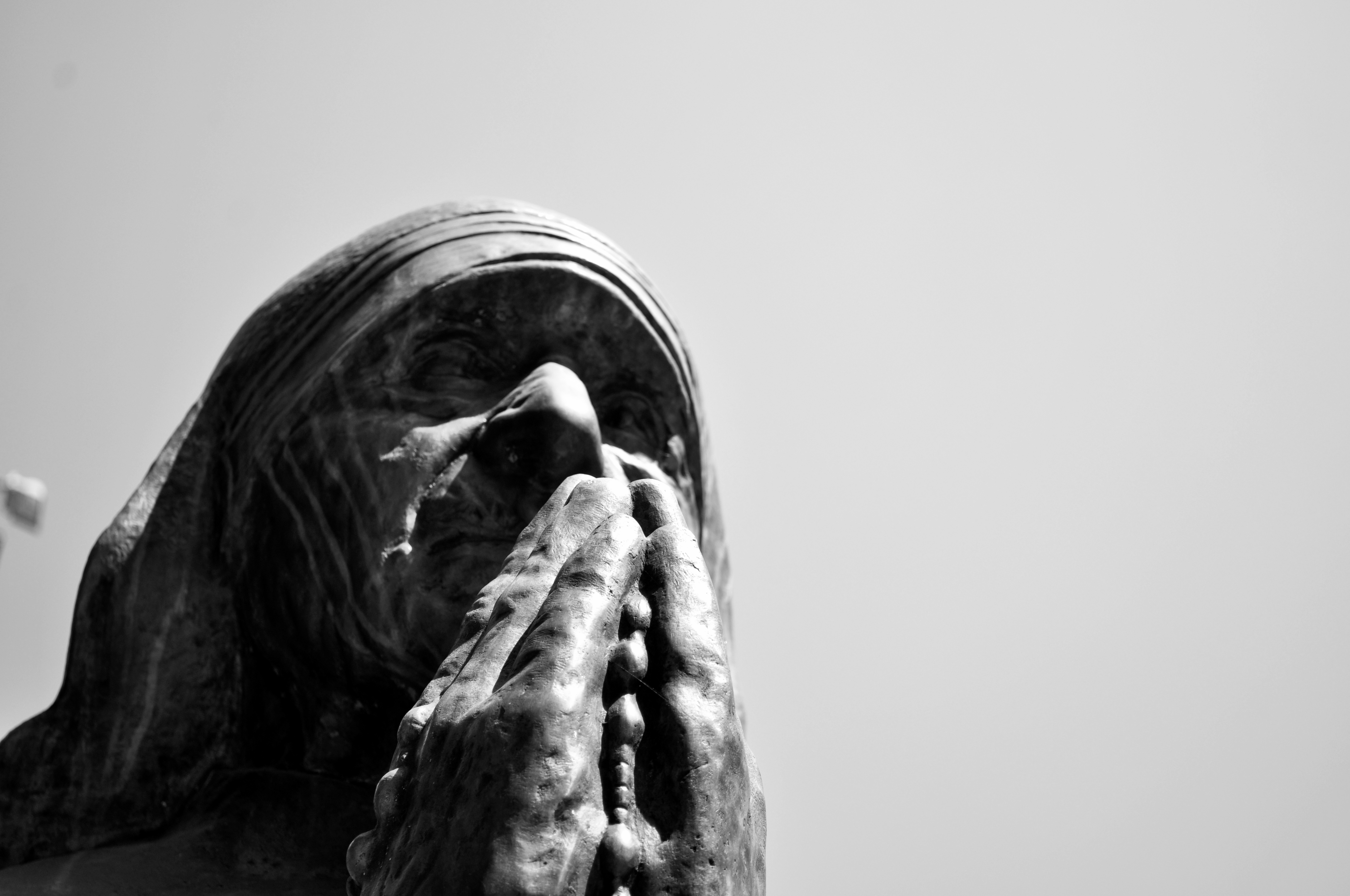 Mother Teresa in Skopje, MKD